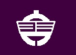 Flag of Showa Fukushima